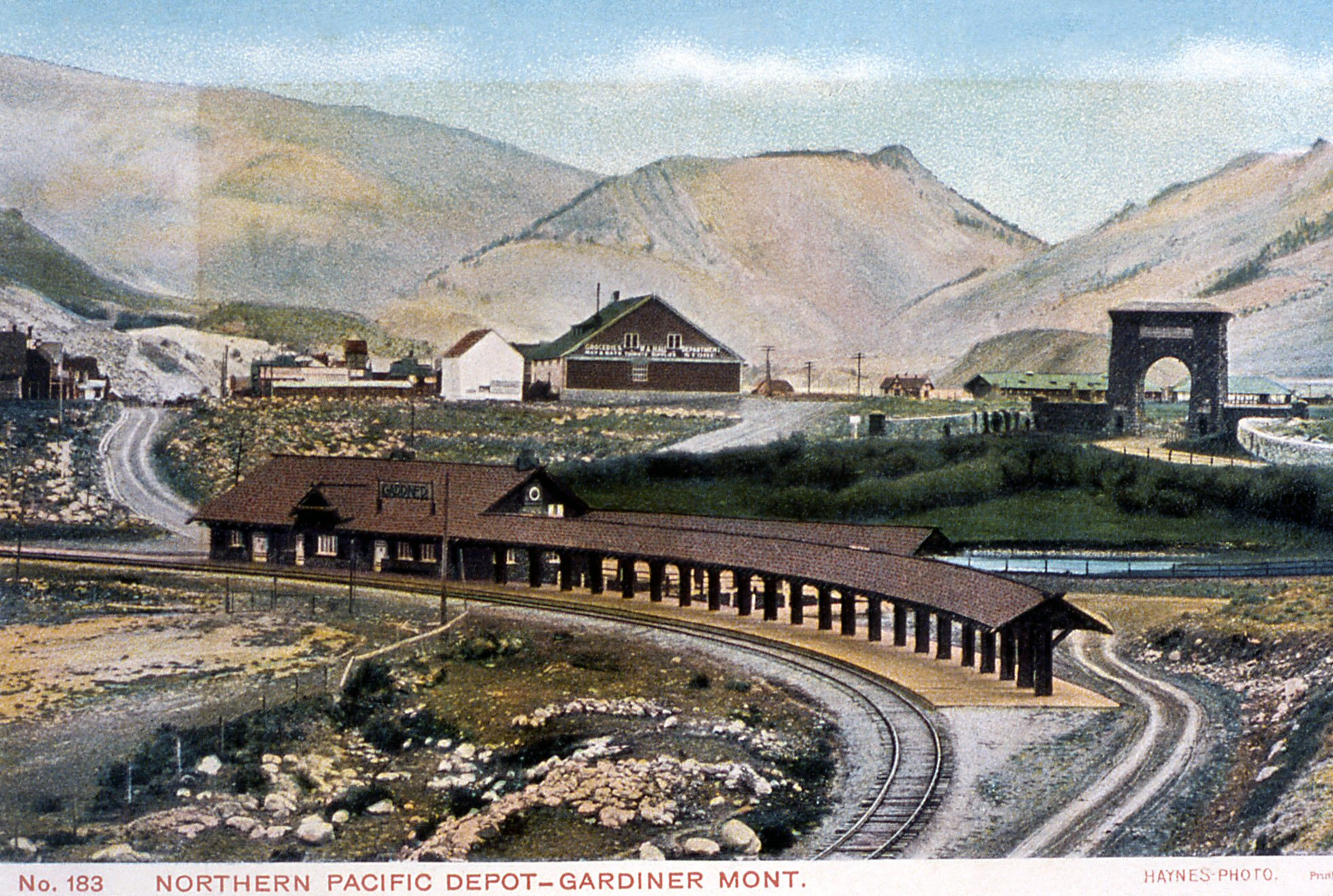 Northern Pacific Railway terminal, Gardiner, Montana - Frank Jay Haynes postcard